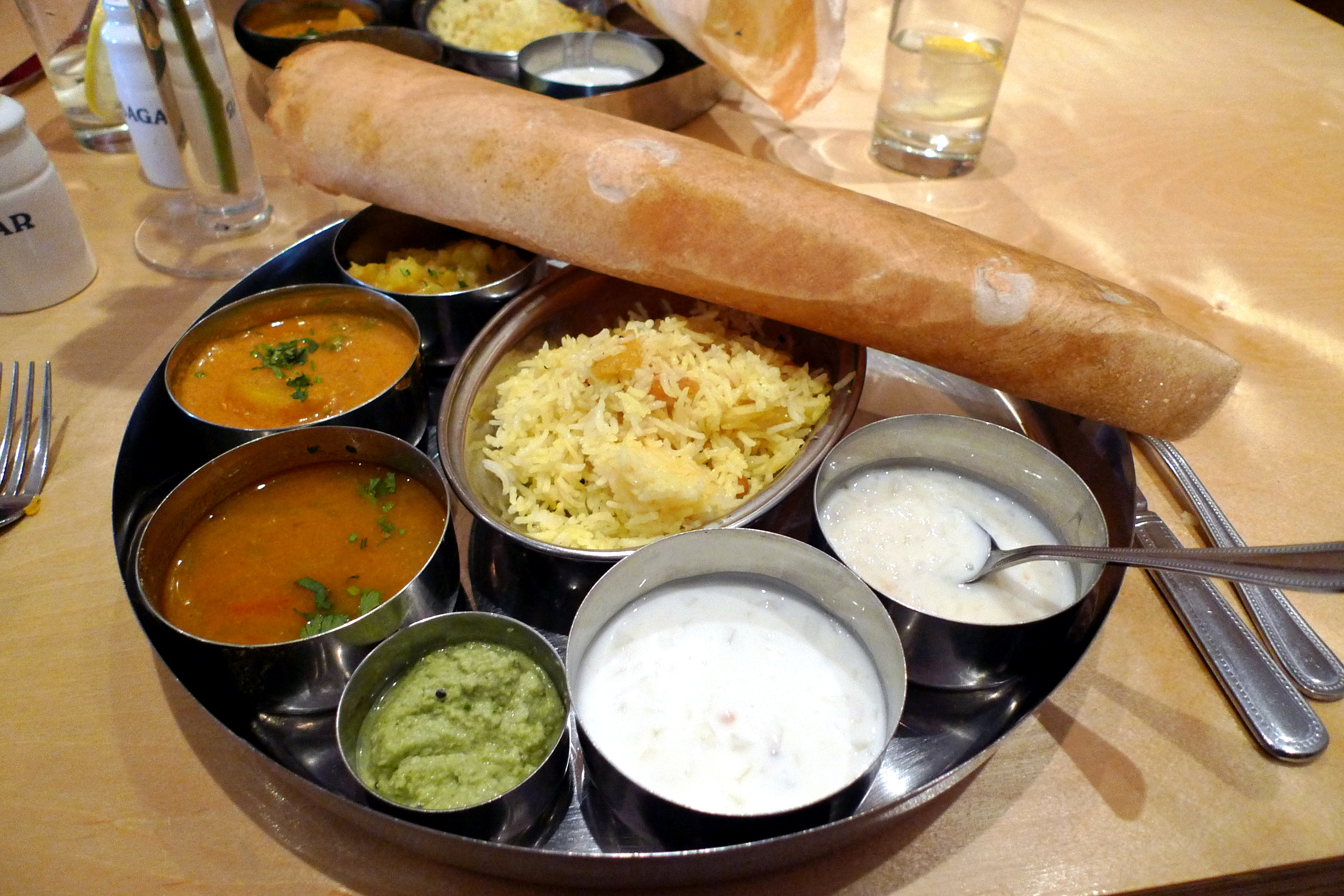 The main portion of the set set lunch (though some other dishes are included, as well as poppadom). Pilau rice with a variety of vegetarian curries, a dosa pancake, and a rice pudding (the bowl on the right). At Sagar, Percy Street.